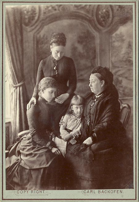 Queen Victoria at right, flanked by her daughter Victoria, Crown Princess of Prussia, her grand-daughter Charlotte, Princess Bernhard of Saxe-Meiningen, and with her arm around her very young great-grand-daughter Princess Feodore of Saxe-Meiningen.